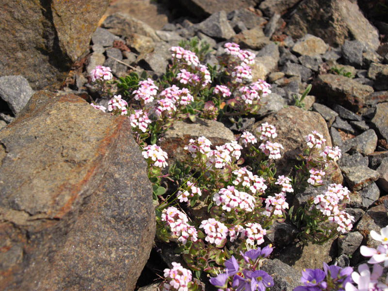 Aethionema saxatile